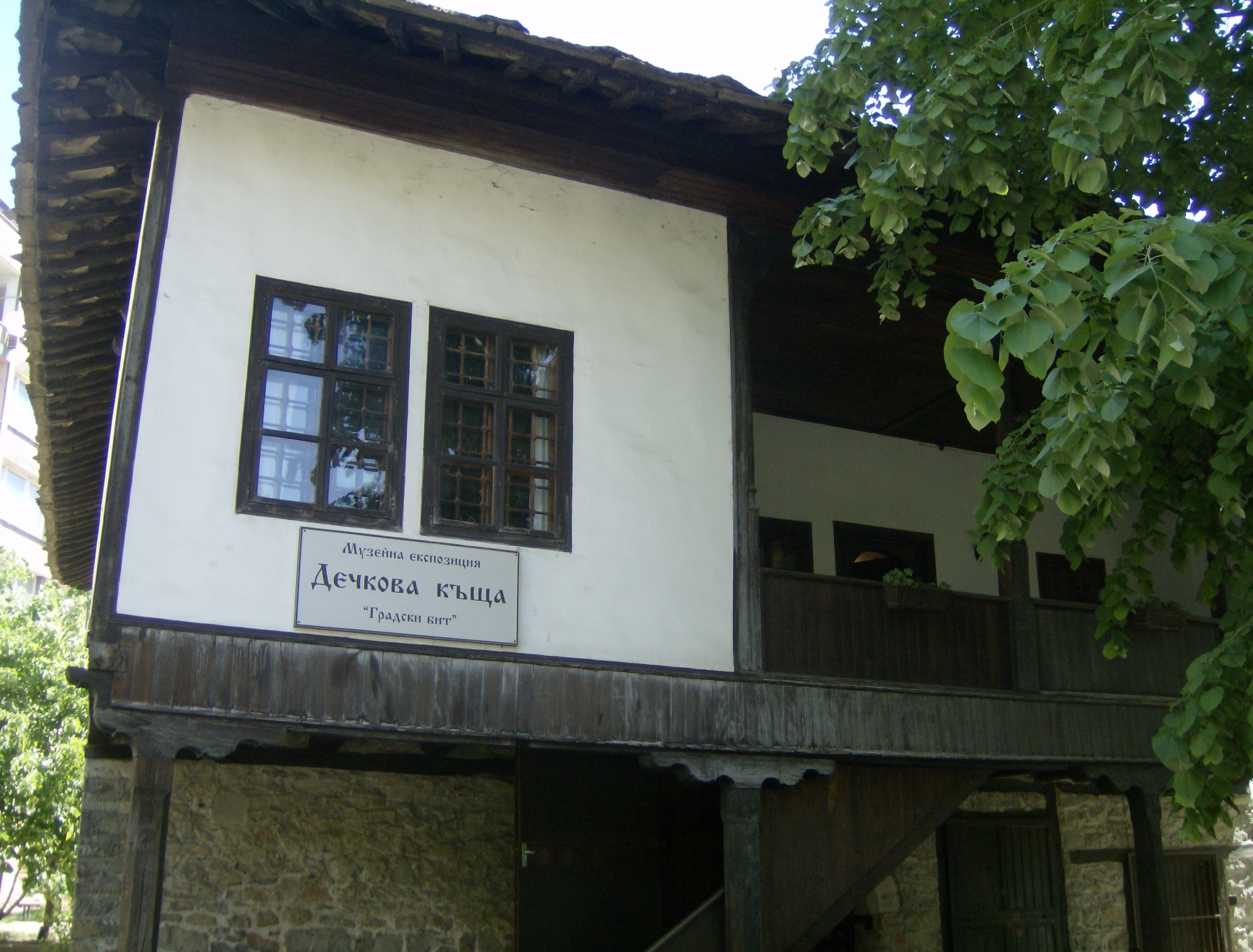 Dechkova house